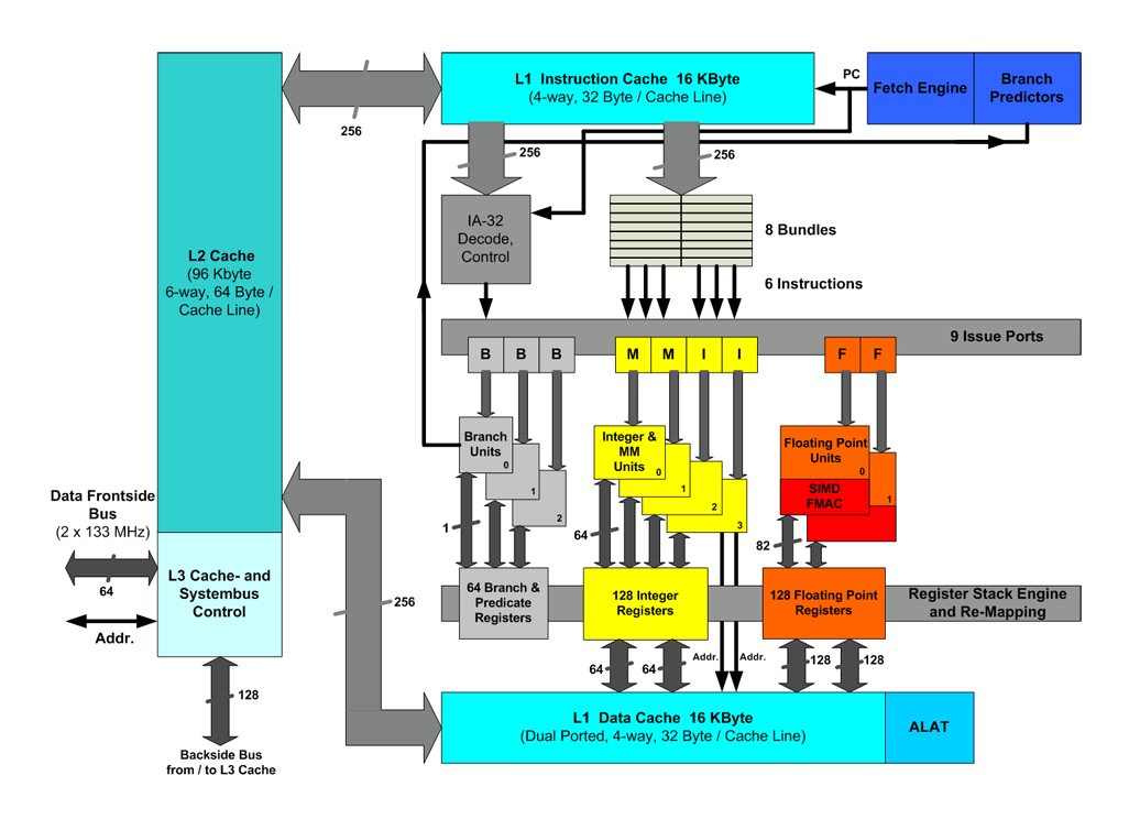 The Intel Itanium architecture. Source / Photographer: Appaloosa 15:47, 16 November 2005 (UTC)